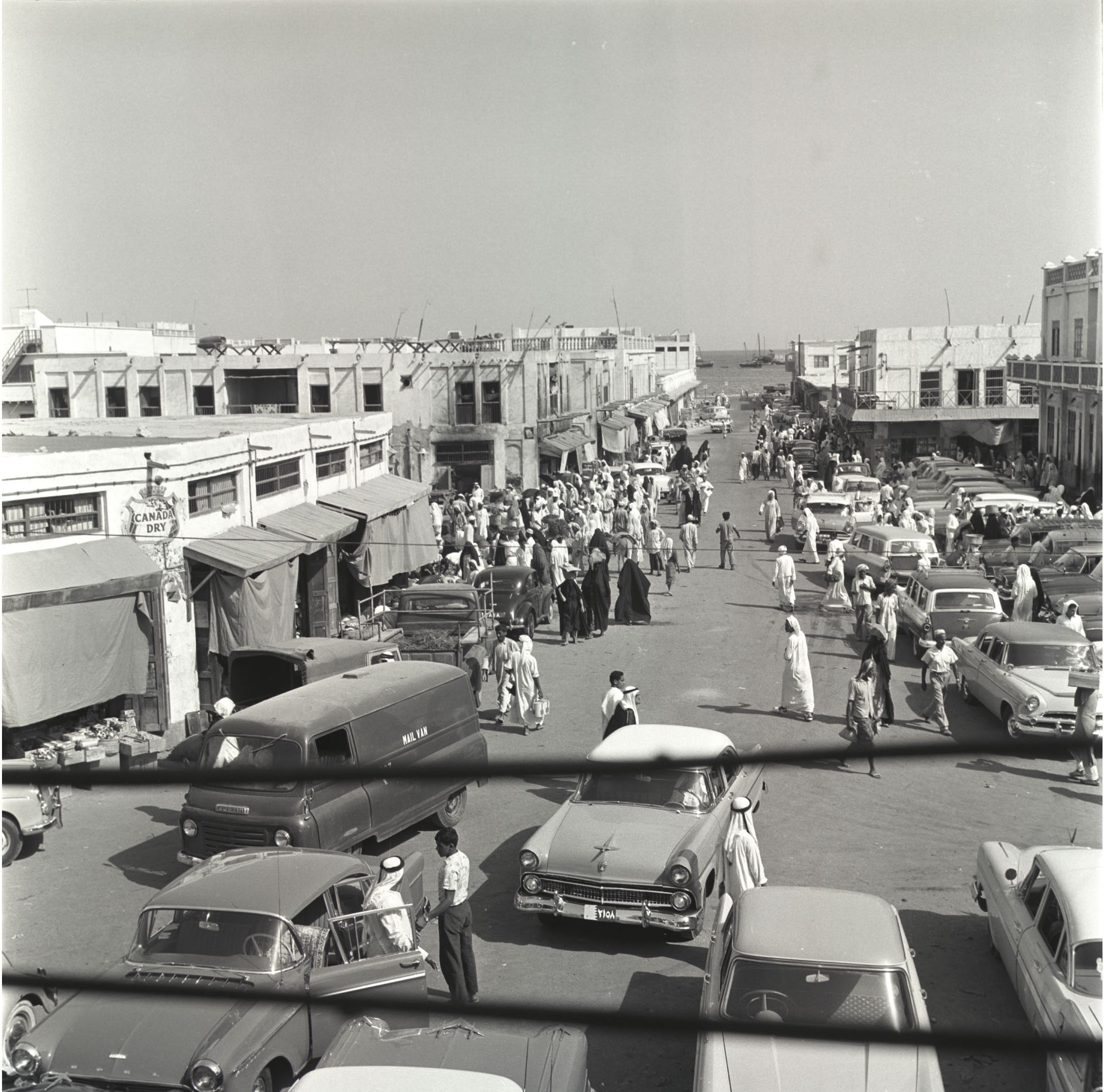 Photograph of the Manama Souq area in Bahrain, 1965